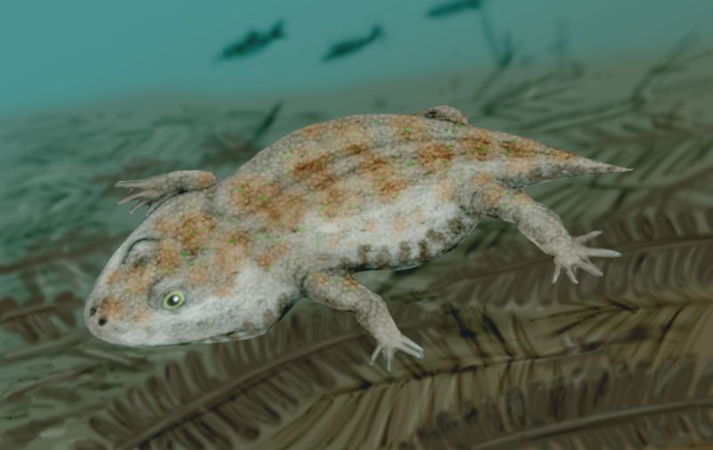 Amphibamus grandiceps, a dissorophoid temnospondyl from the Late Carboniferous of Illinois. Digital.